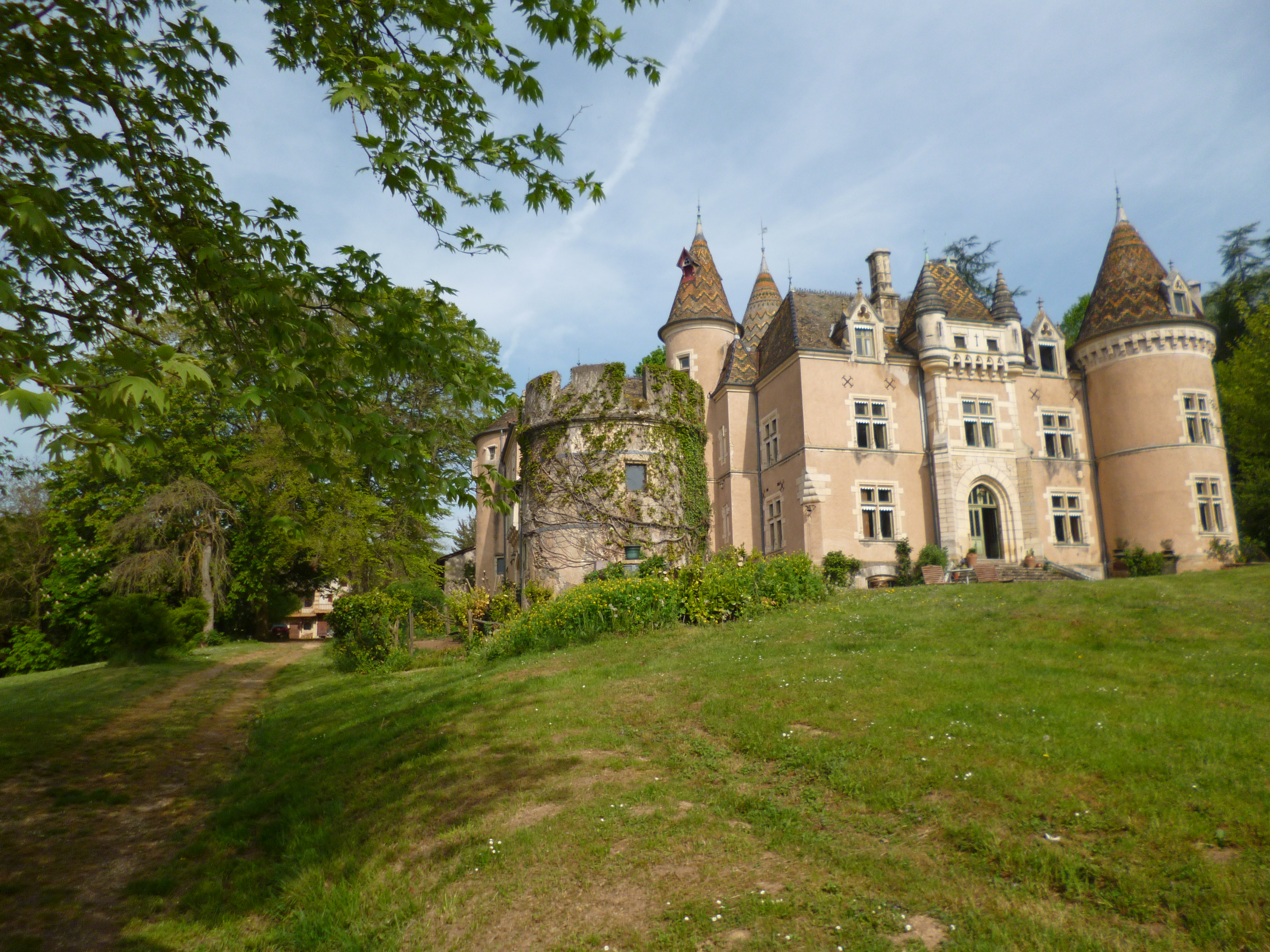 Burgundy, Loire